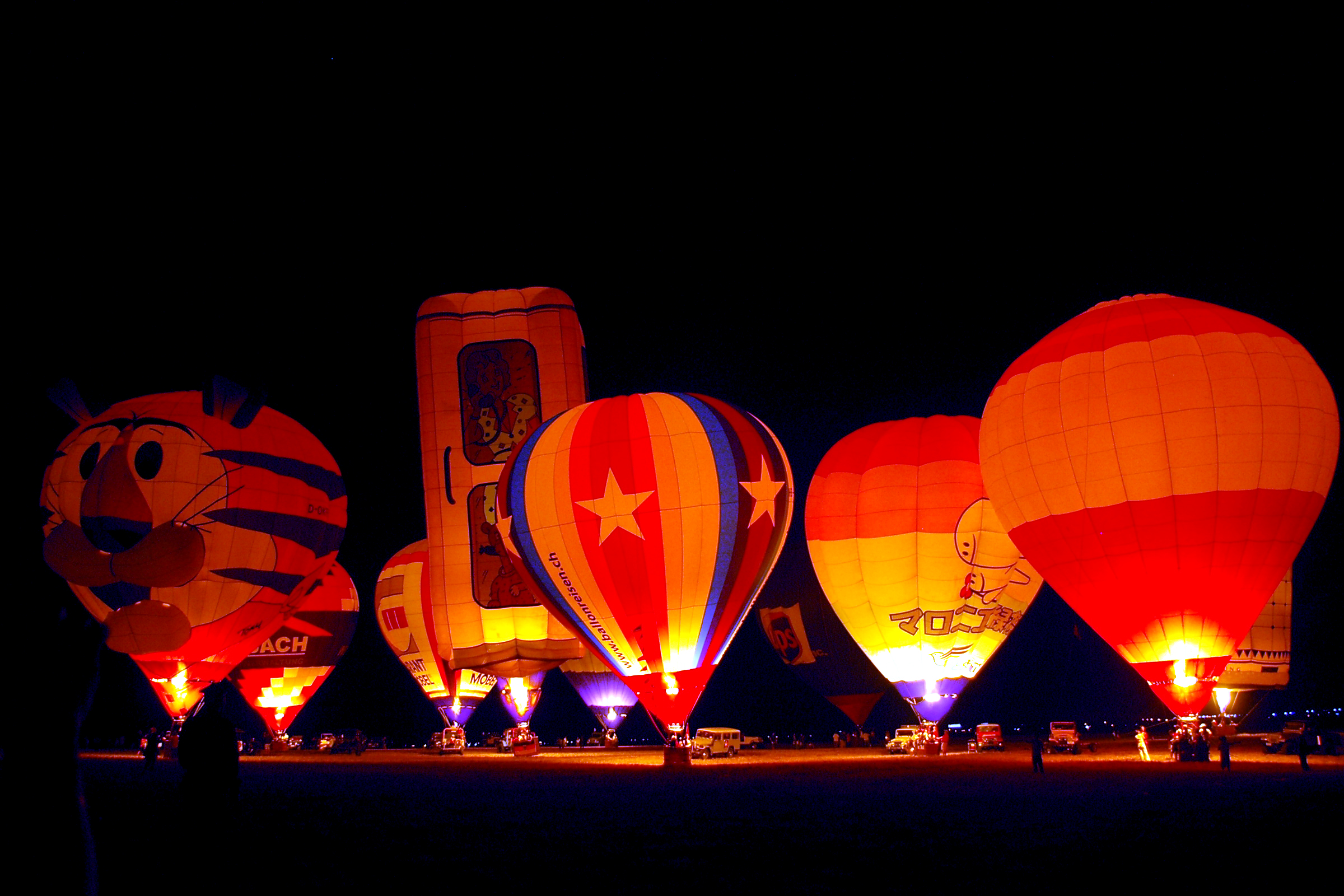 Night-time balloon display during the Hot Air Balloon Fiesta at Clark, Pampanga